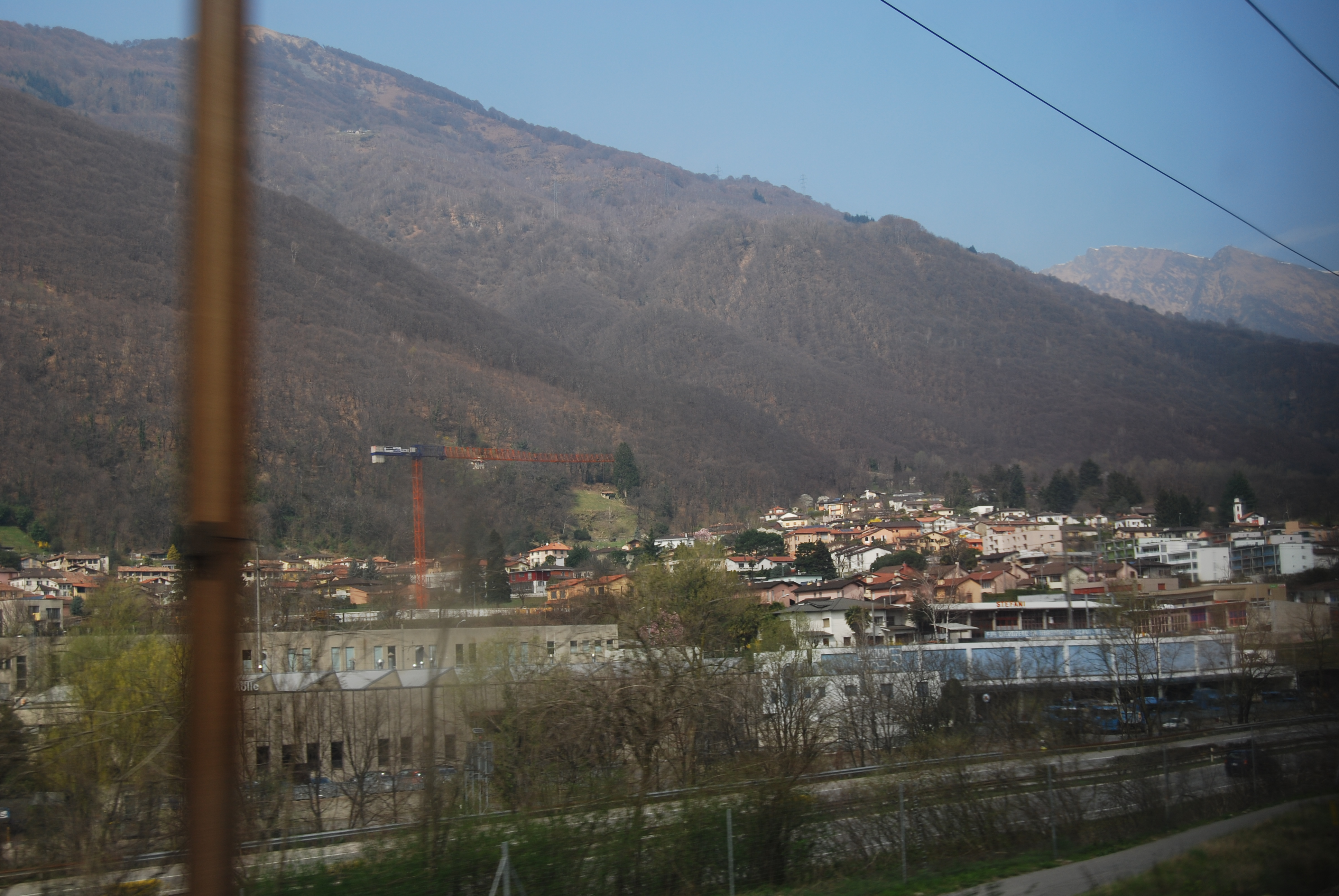 Bedano, canton of Ticino, SwitzerlandEsperanto: Bedano, Kantono Tiĉino, Svislando